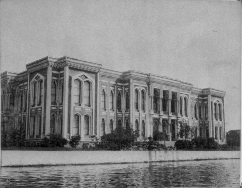 Ottoman Department of the Navy Building in Kasımpaşa, İstanbul. Photo taken by Abdullah frères between 1880-1893Unknown